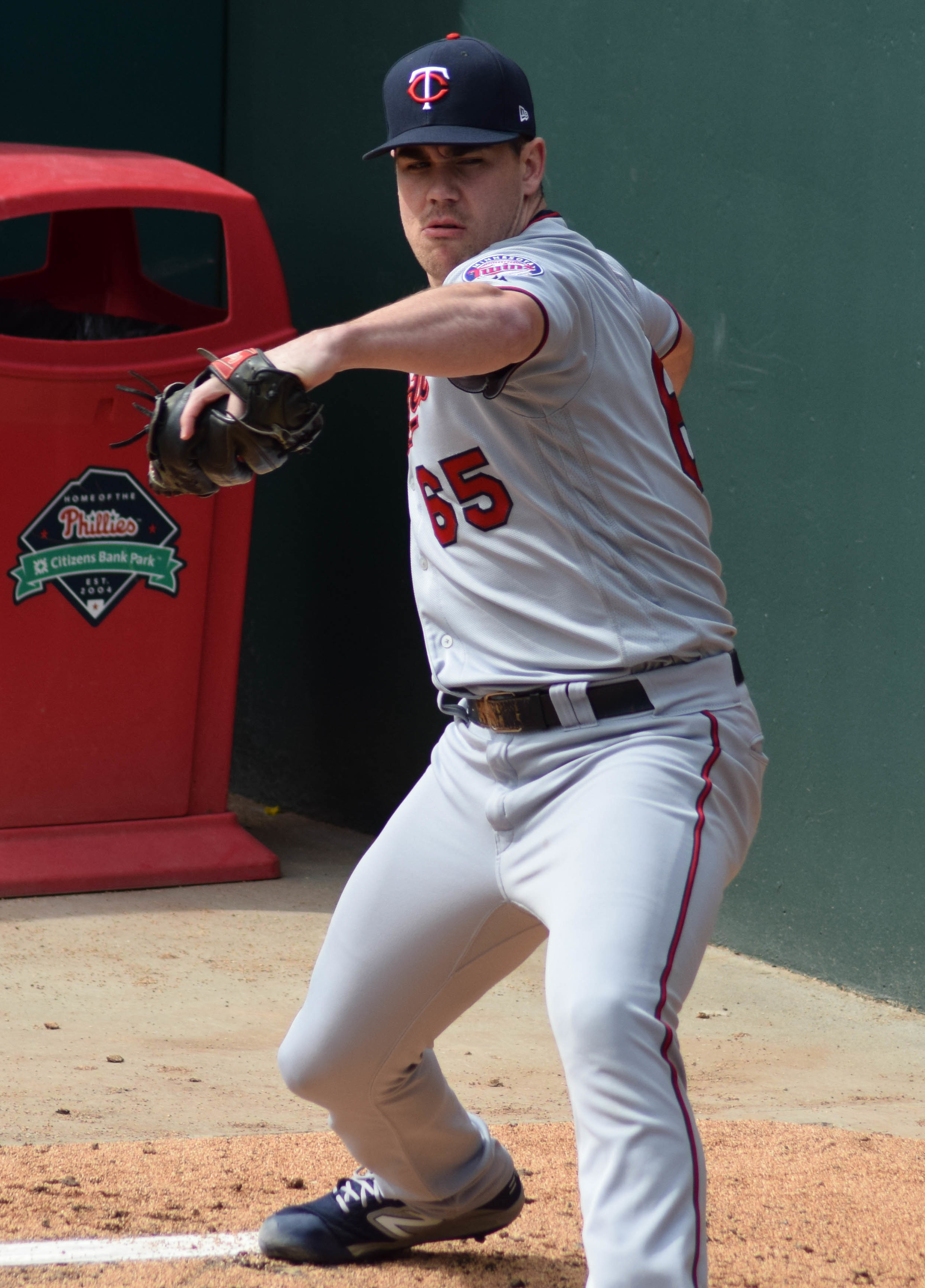 Trevor May of the Minnesota Twins warms up in the bullpen of Citizens Bank Park in Philadelphia in 2019